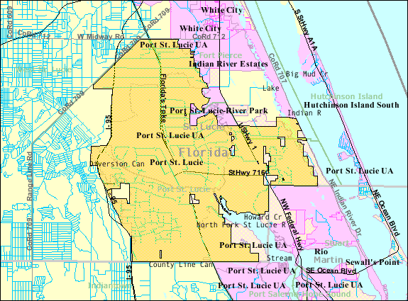 Port St. Lucie, Florida